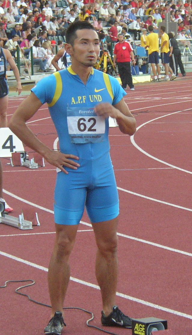 Dai Tamesue, Japanese athlete (400m hurdles), at Josef Odložil Memorial, Prague, 27th June 2005 (he won in 49.24 s).